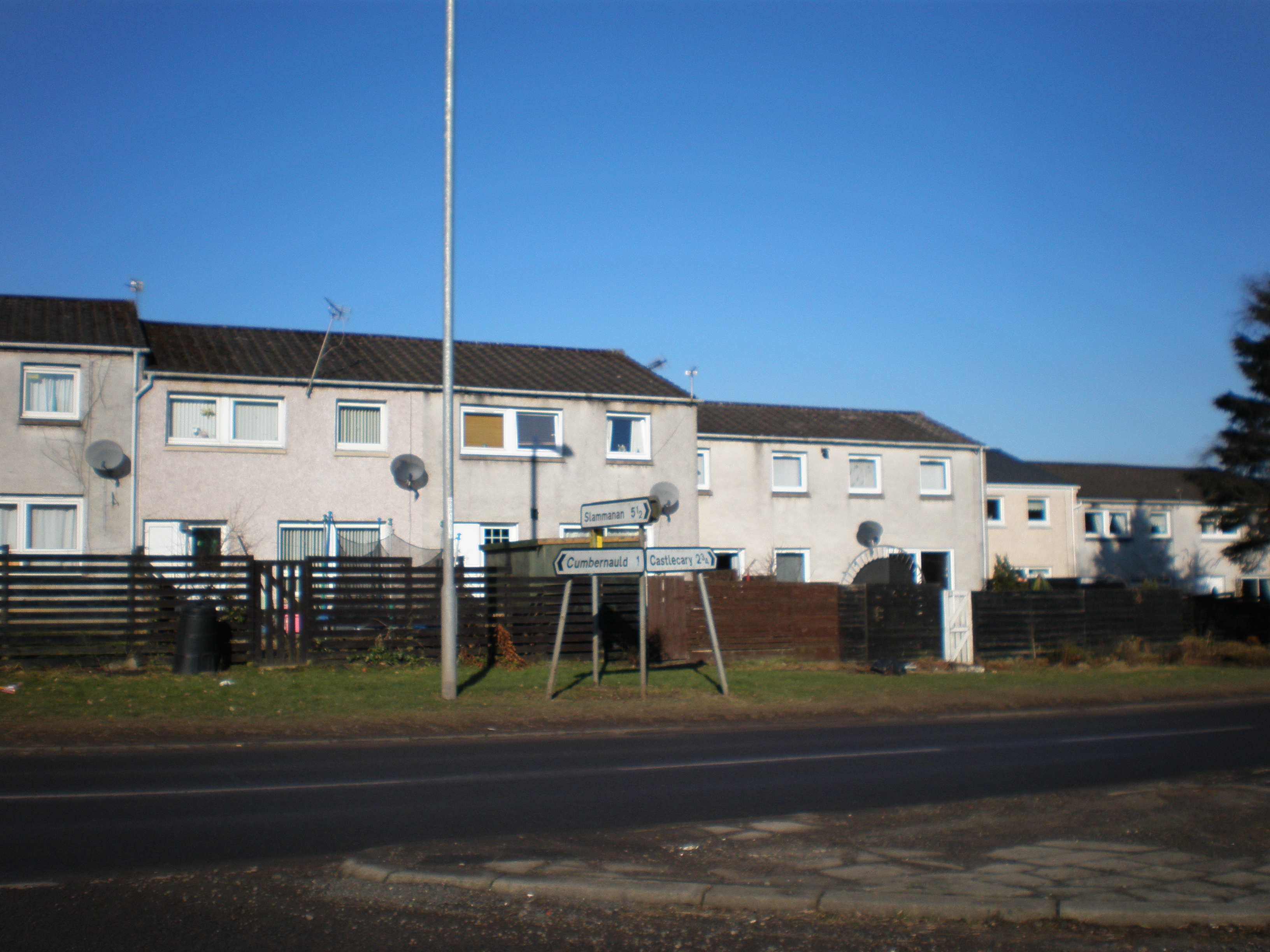 Entering Abronhill Cumbernauld